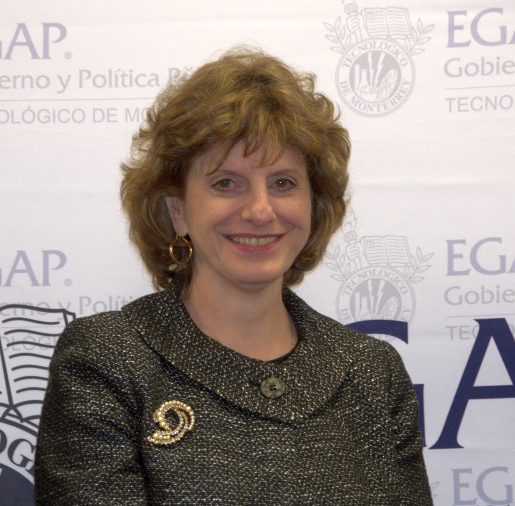 María de Lourdes Dieck Assad in the presentation of the book Construyendo el futuro de Mexico by teachers of EGAP, ITESM Campus Ciudad de Mexico